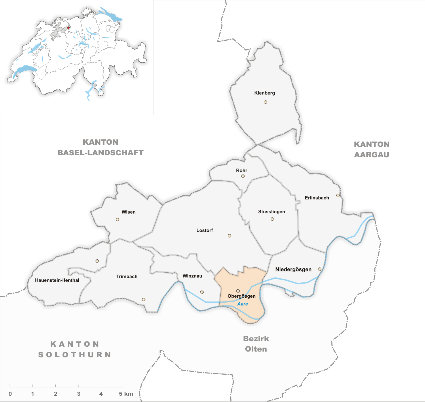 Municipality Obergösgen